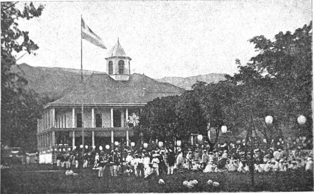 Day before the king's palace.